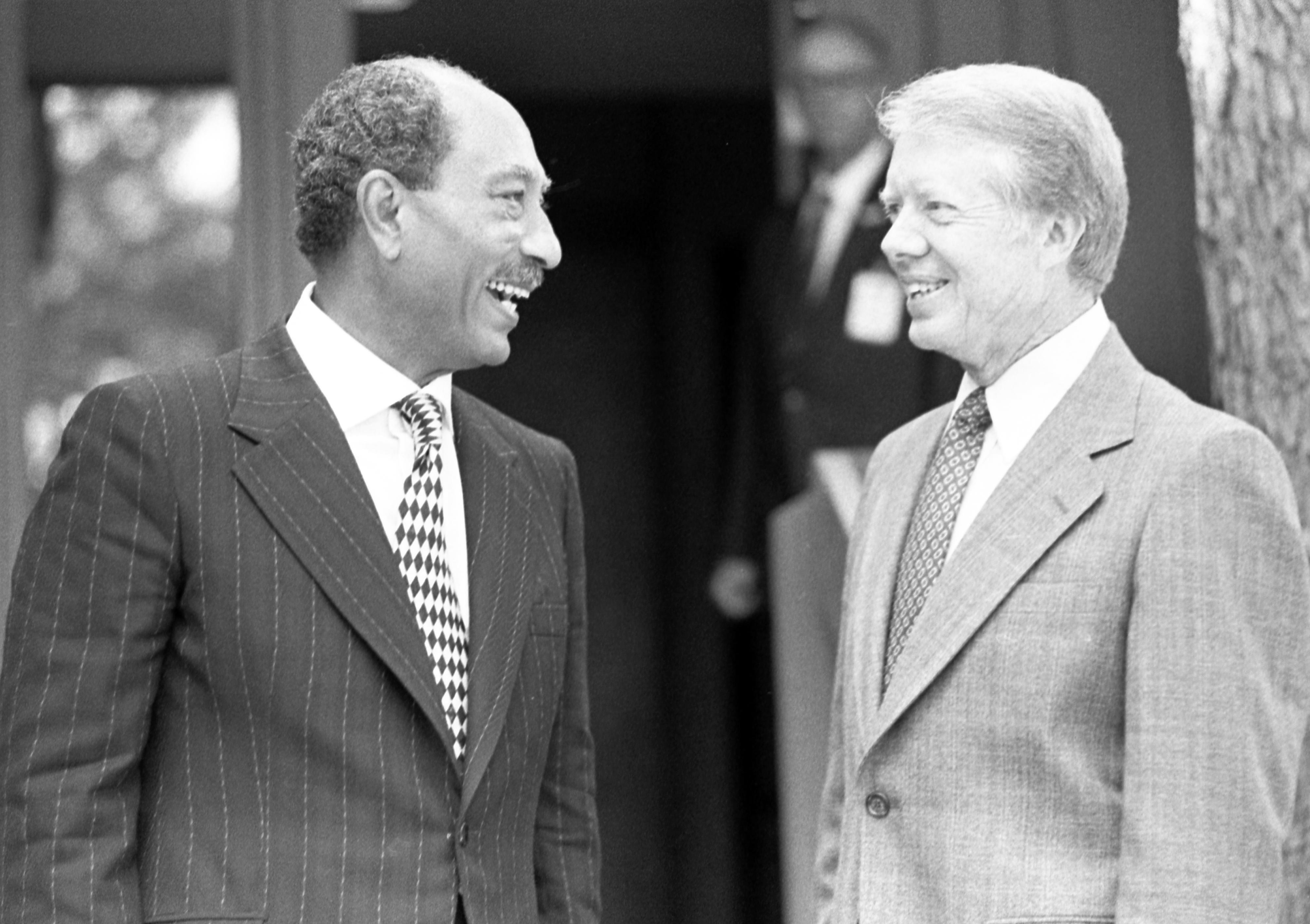 Photo courtesy of Jimmy Carter Library